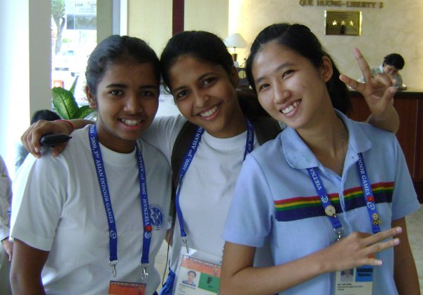 Vovinam athlete(s) at the 2009 Asian Indoor Games in Vietnam, during the period between Oct 28th and Nov 08.